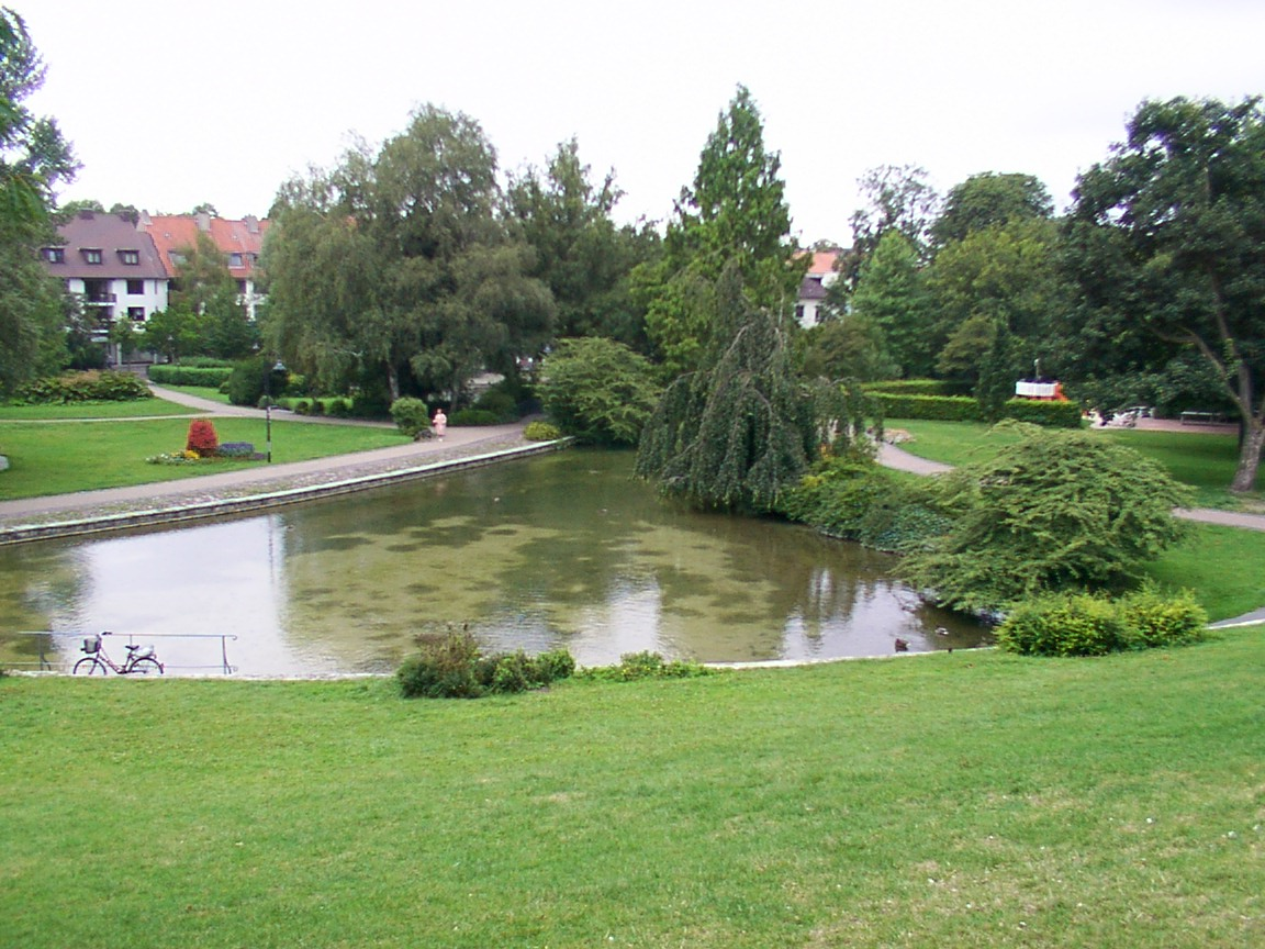 One of ca. 200 Karst springs within the city of Paderborn, forming the river Pader